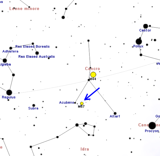 M67